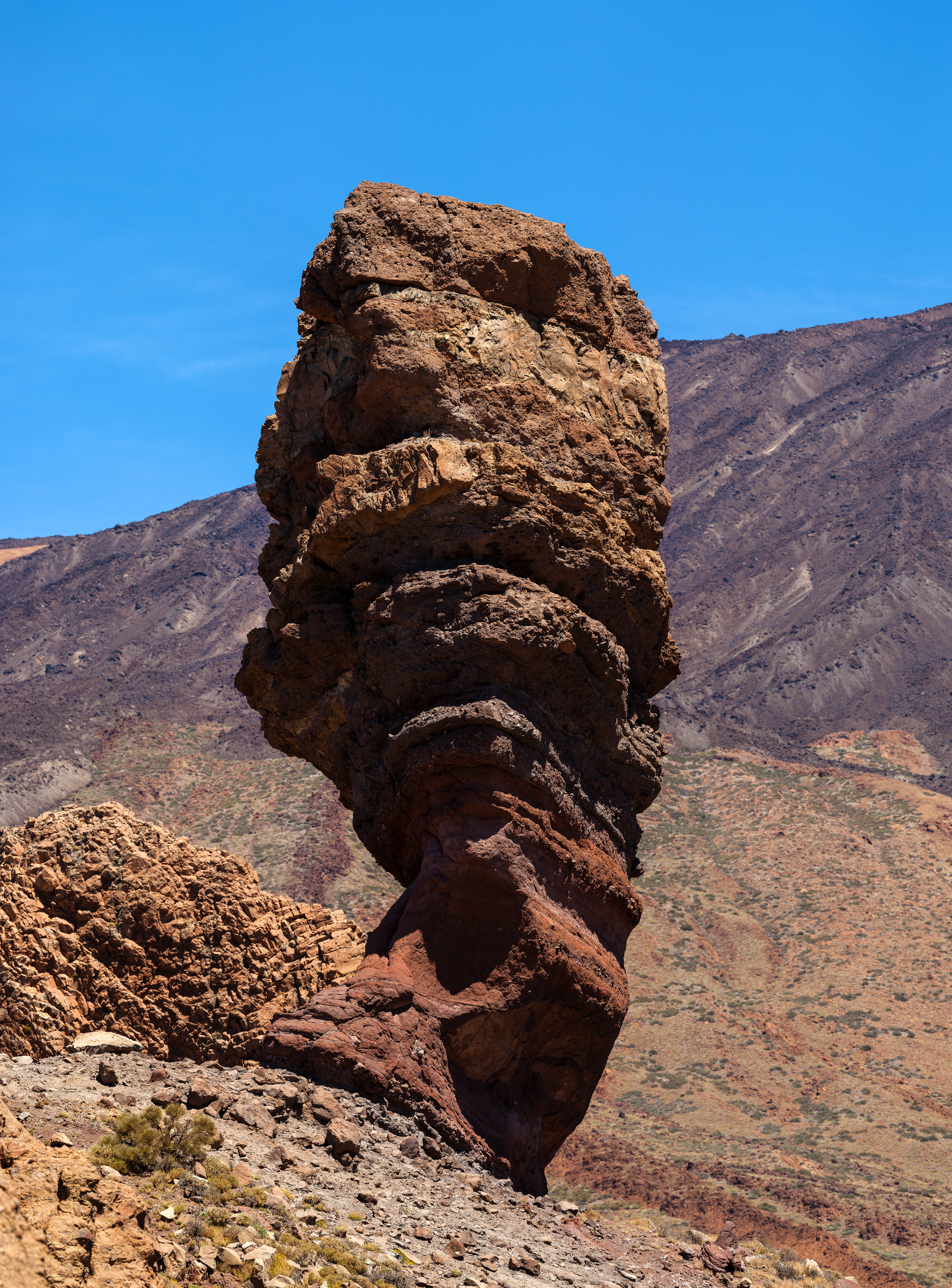 Roque Cinchado in Tenerife, Spain